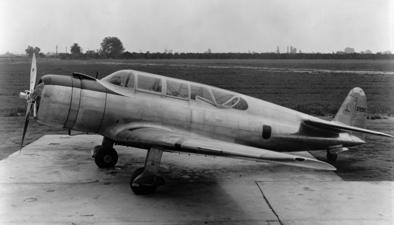 PictionID:45406698 - Catalog:16_006812 - Title:Vultee V-12C - Filename:16_006812.TIF - Image from the Ray Wagner Collection. Ray Wagner was Archivist at the San Diego Air and Space Museum for several years and is an author of several books on aviation --- ---Please Tag these images so that the information can be permanently stored with the digital file.---Repository: San Diego Air and Space Museum